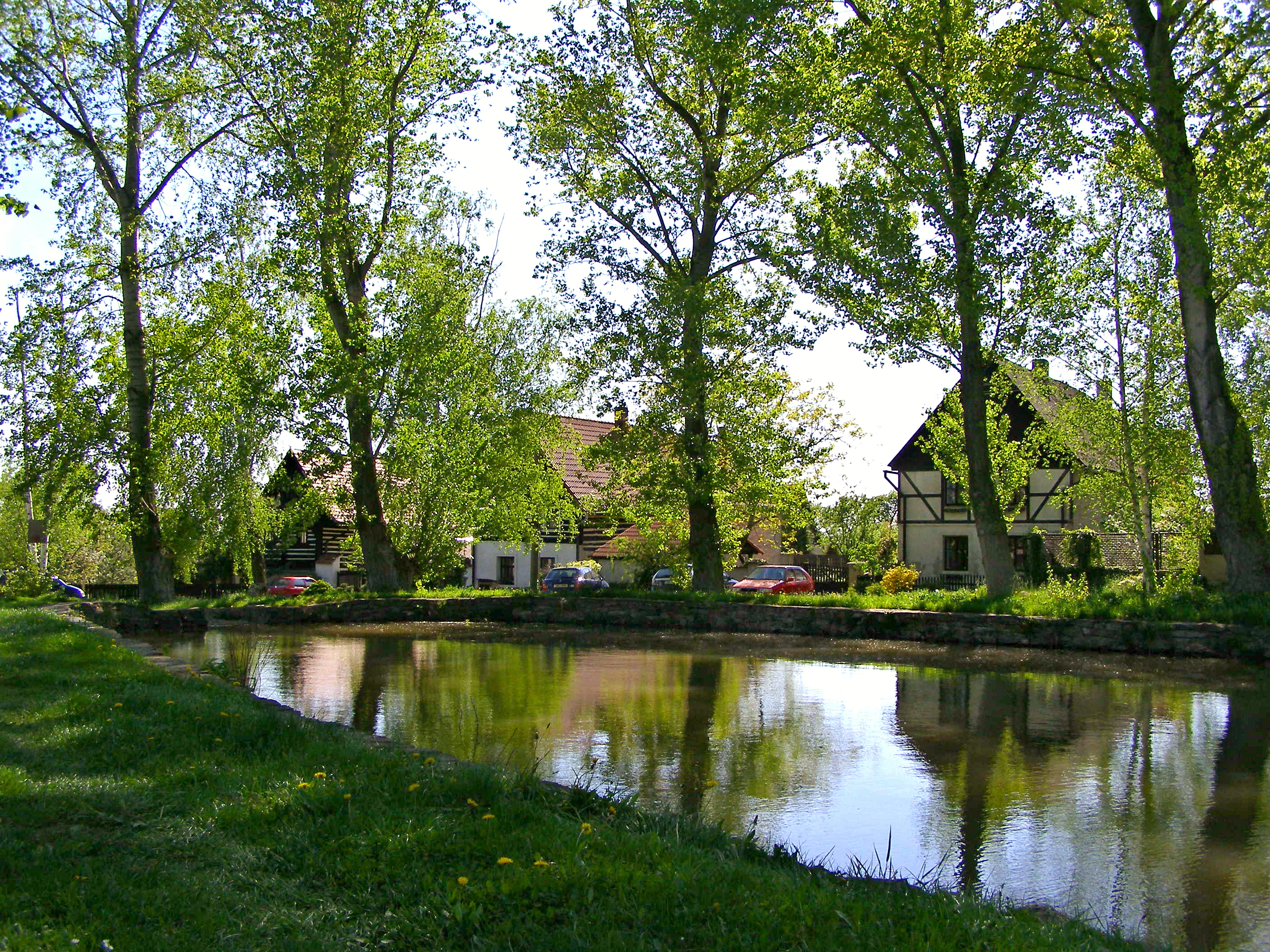 Village Mladé